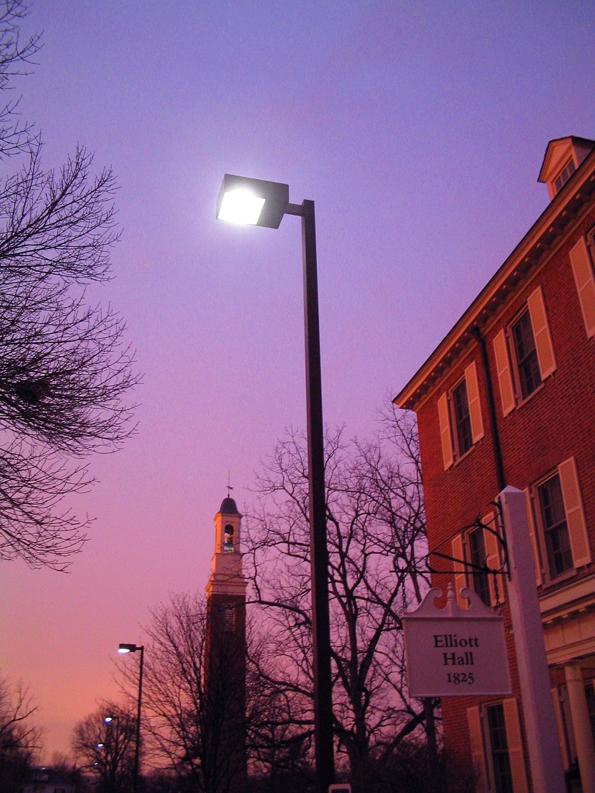 Elliott Hall at Miami University in Oxford, Ohio The Phi Delta Theta Fraternity was founded in this building.